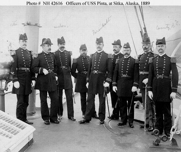 U.S. Navy Ensign Robert E. Coontz aboard the USS Pinta